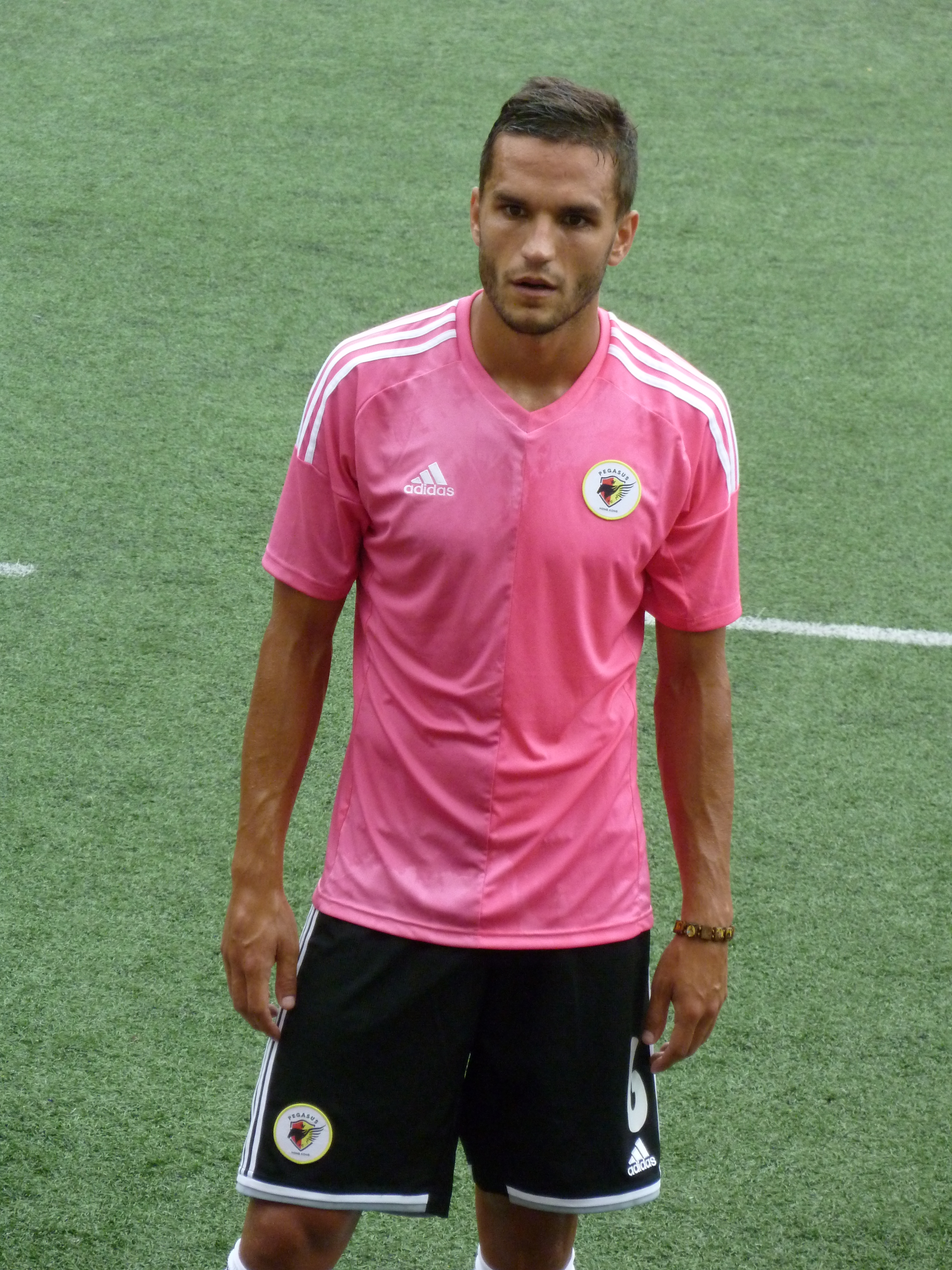 Dušan Martinović (14 Aug 2015, Friendly Match, Pegasus vs Dreams Metro Gallery FC, Shek Kip Mei Park)中文（香港）: 杜辛 (14 Aug 2015, 友賽, 飛馬 vs 夢想駿其, 石硤尾公園)